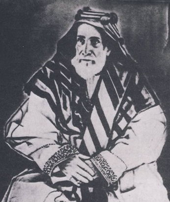 A photograph of Isa bin Ali Al Khalifa (1848 – 1932), the Hakim of Bahrain since 1869 to 1923. Date unknown though likely early 20th century.